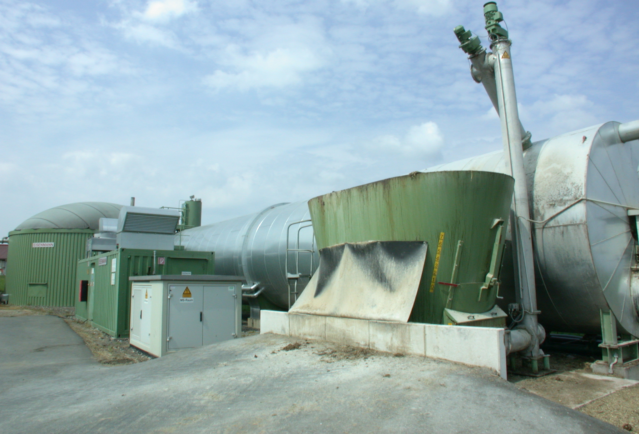 249kW biogas unit on a farm in Niederbrechen, Hesse, Germany. Year of construction 2004